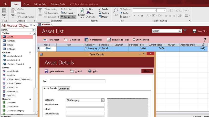 Access features